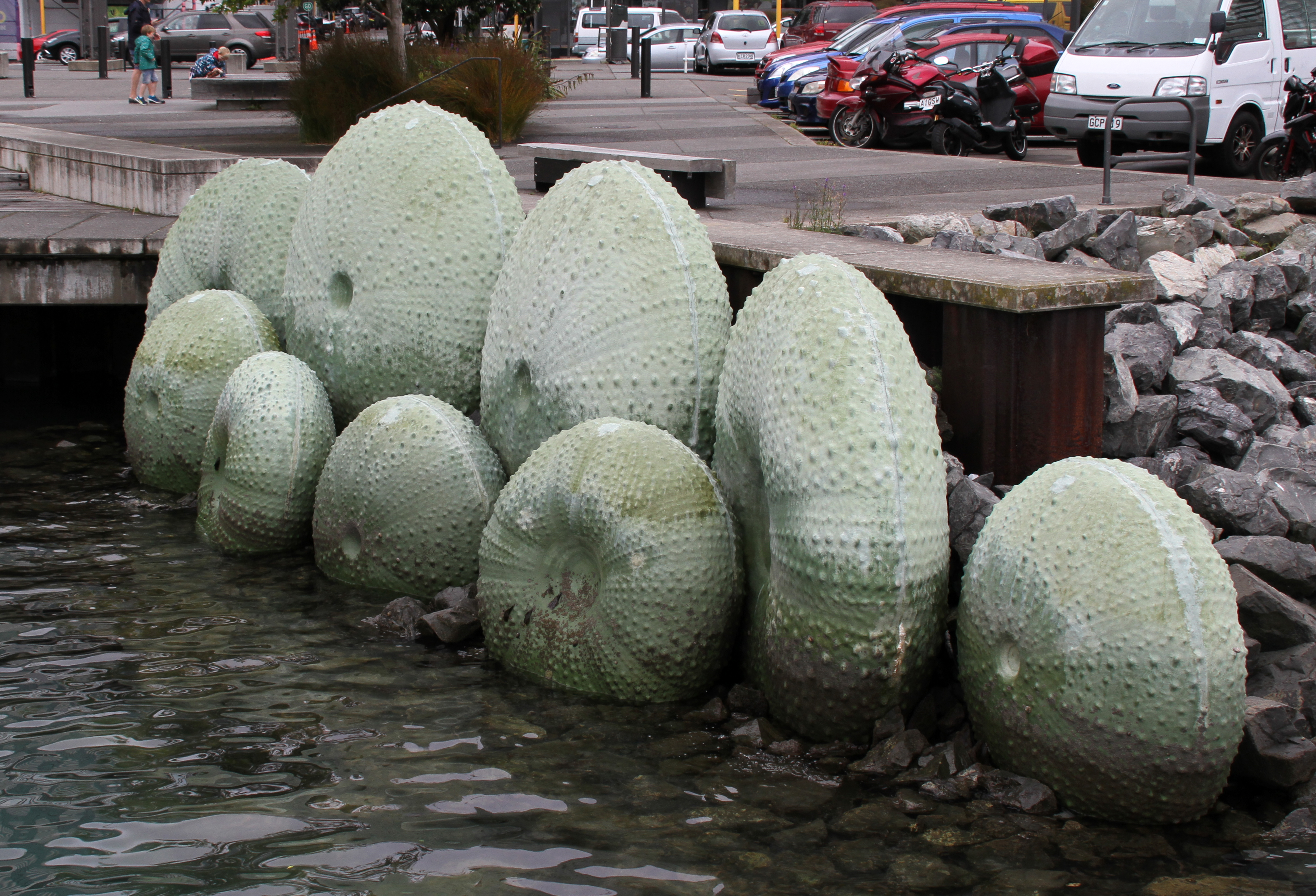 Kina (sea urchins)